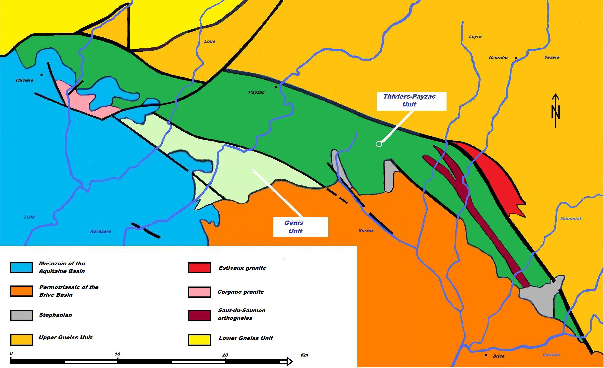 Geological map of the northwestern edge of the French Massif Central indicating the position of the Thiviers-Payzac Unit.